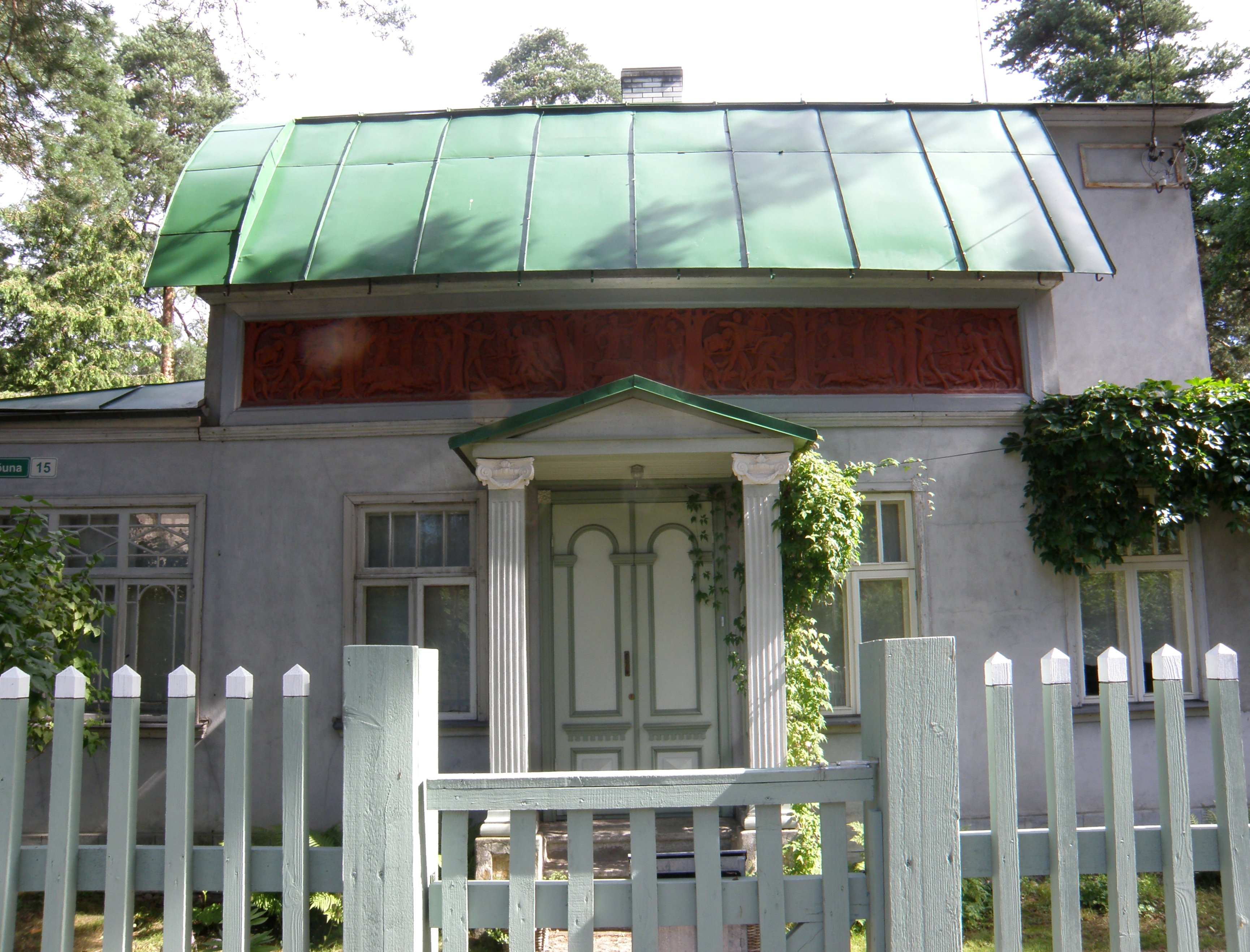 Lõuna 15